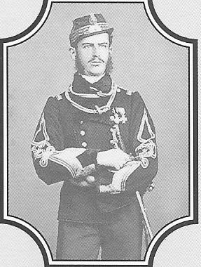 Prince Karl of Hohenzollern Sigmaringen later king Carol I of Romania